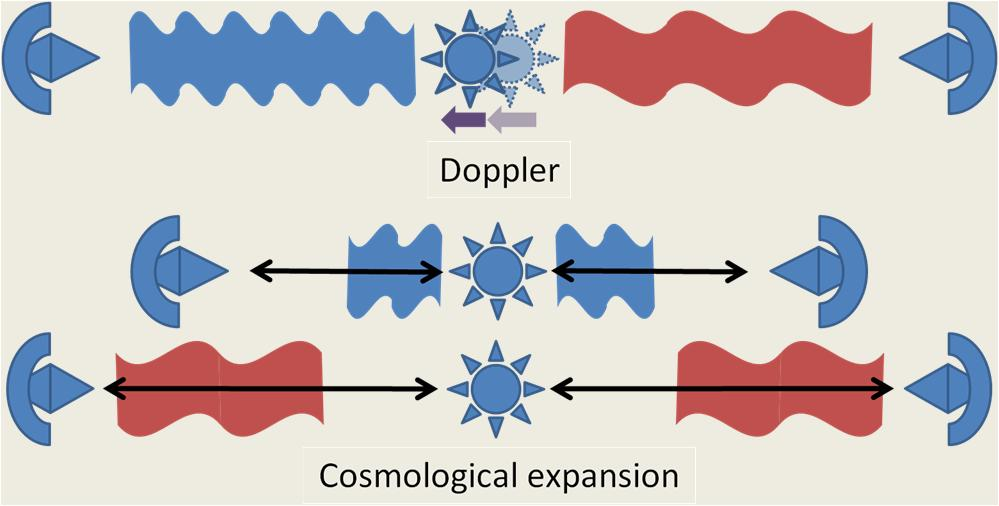 Two sources of redshift: Doppler and cosmological expansion; modeled after Koupelis & Kuhn